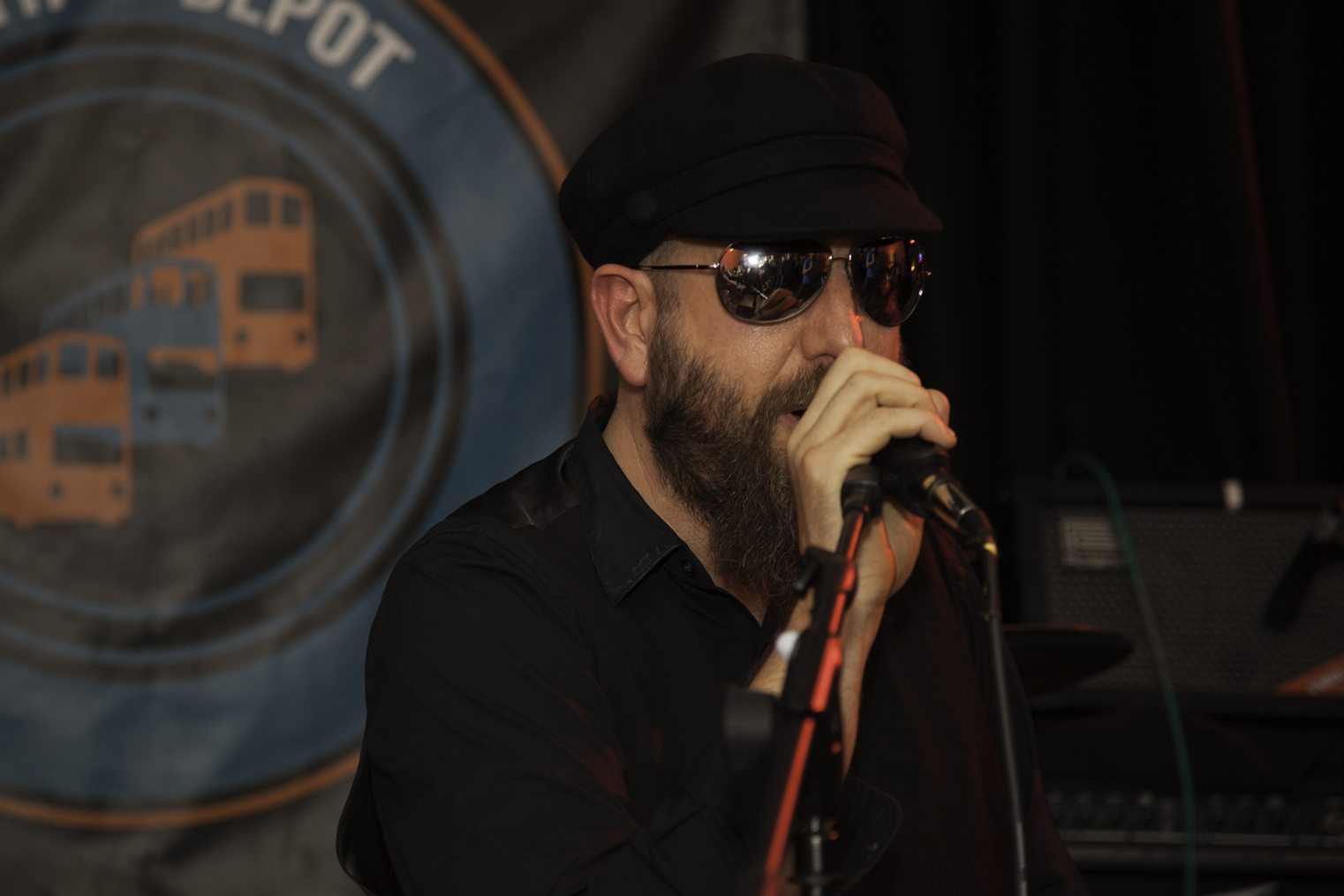 Martin Metcalfe performing at Leith Depot Benefit #13 For Refugees, September 2017